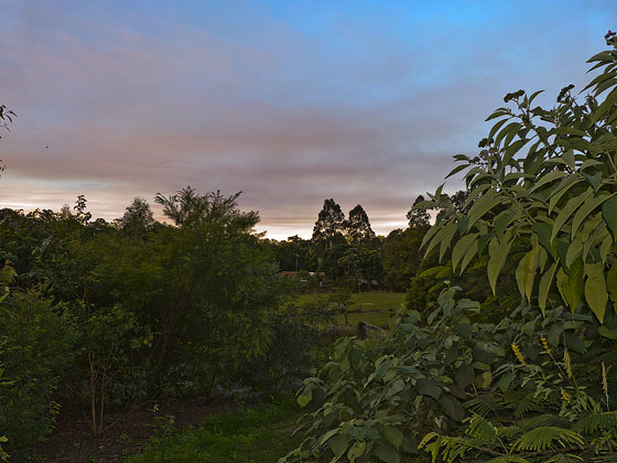 Ithaca Creek, Bardon, Queensland, Australia, looking towards 15 Carwoola Street from the Simpson Falls branch